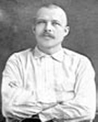 Photo of infamous serial killer Billy Gohl